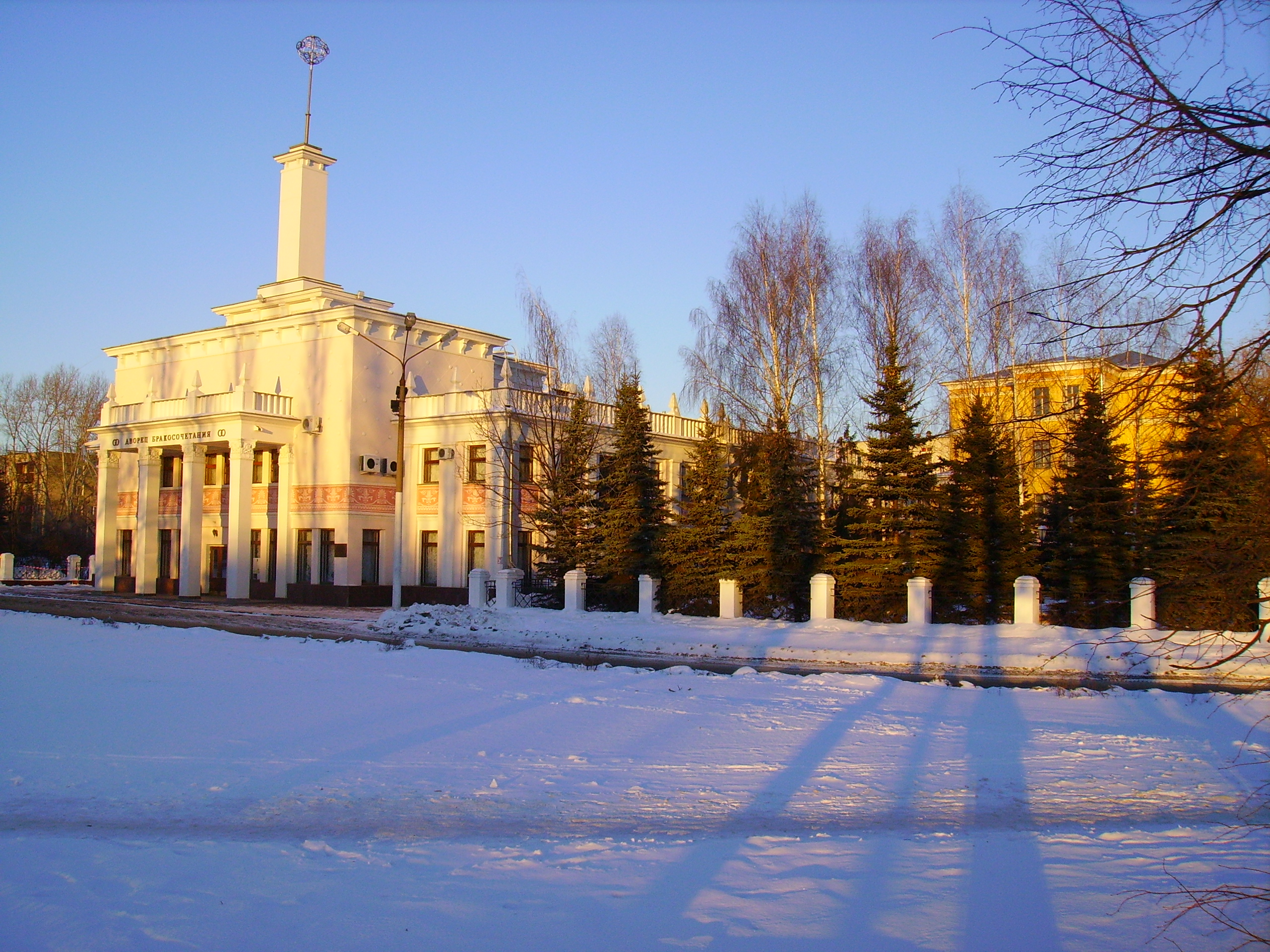 Nizhny Novgorod, wedding palace of Avtozavodsky City District, built in 1937-39 by V. M. Anisimov as “Schastlivaya” Station of the Nizhny Novgorod Child Railway.